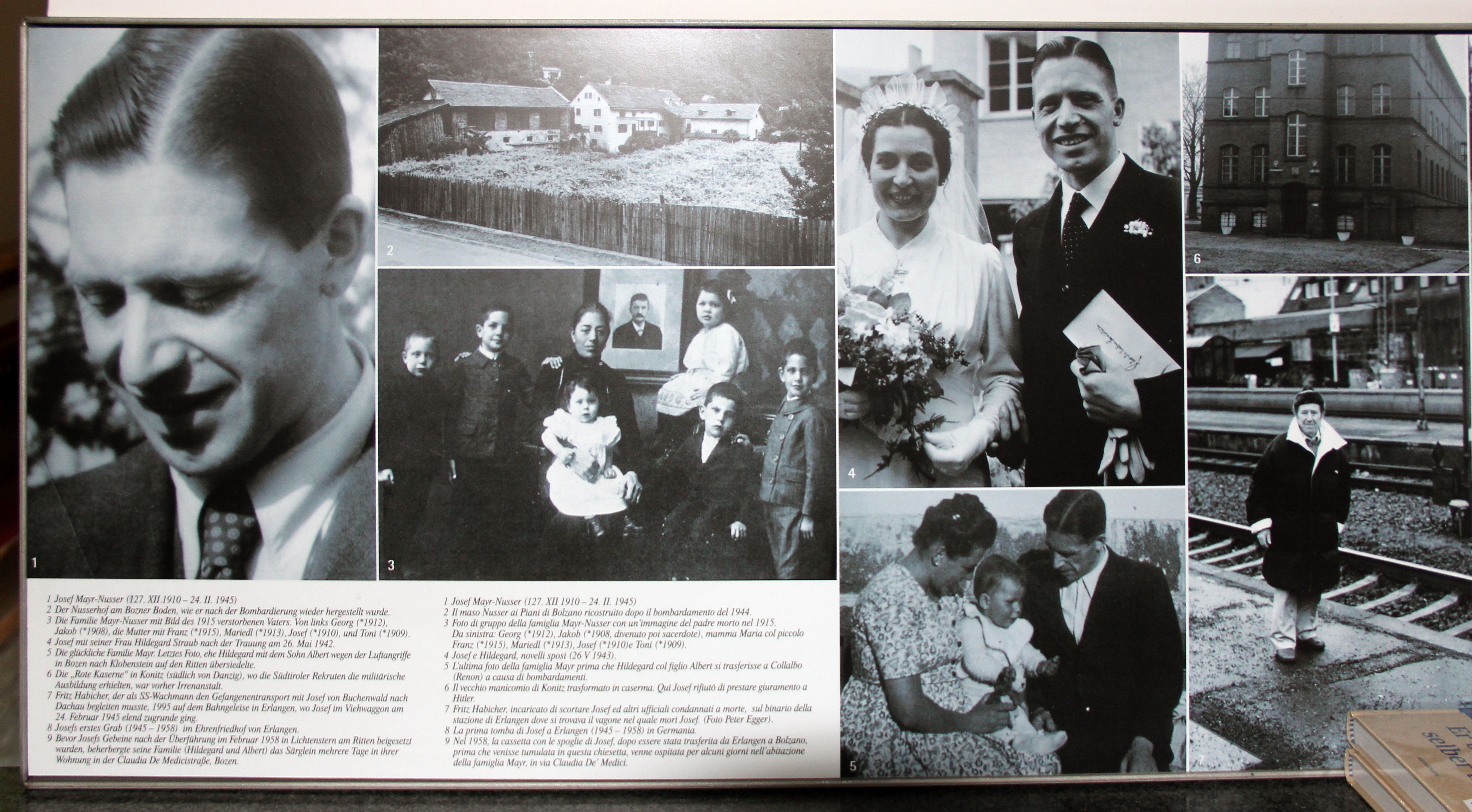 Memorial plaque, Josef Mayr-Nusser, Lichtenstern 1-7, Ritten, Italy